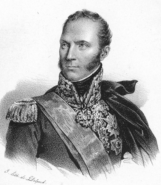 French general Armand Augustin Louis de Caulaincourt (1773-1827) by François-Séraphin Delpech (1778-1825).